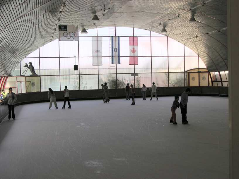 Ice skating in the Canada Centre, Metulla, Israel